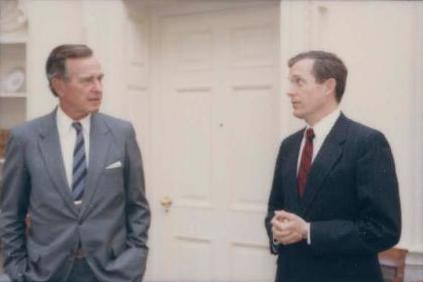 PRESIDENT BUSH GREETS PETER RODMAN AND HIS FAMILY. PRESIDENT BUSH GREETS BONNIE GUITON. ALSO SHOWS THE PRESIDENT TALKING WITH ROGER PORTER. 1990-09-04